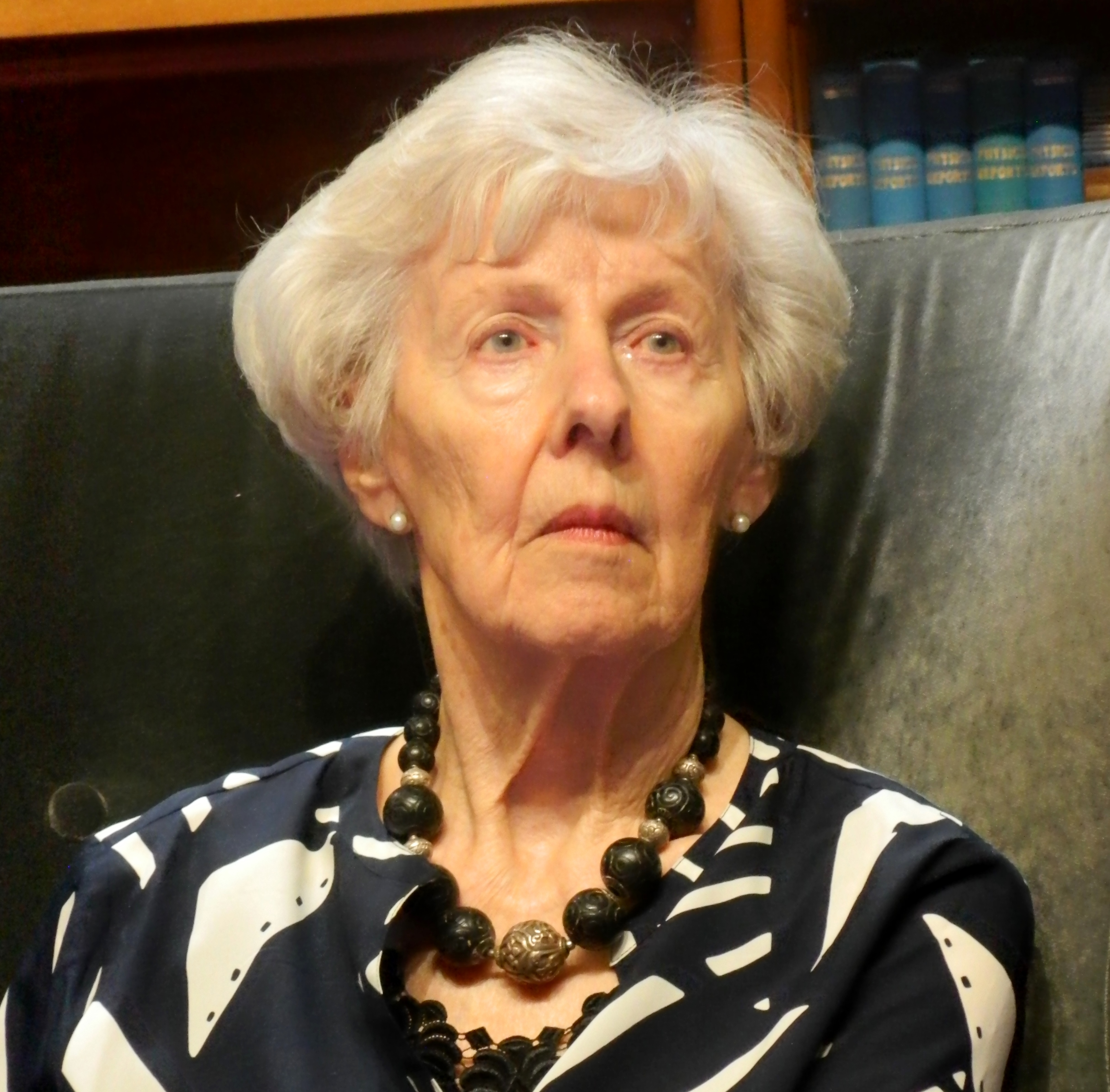 Tellervo Koivisto at Helsinki Book Fair 2017